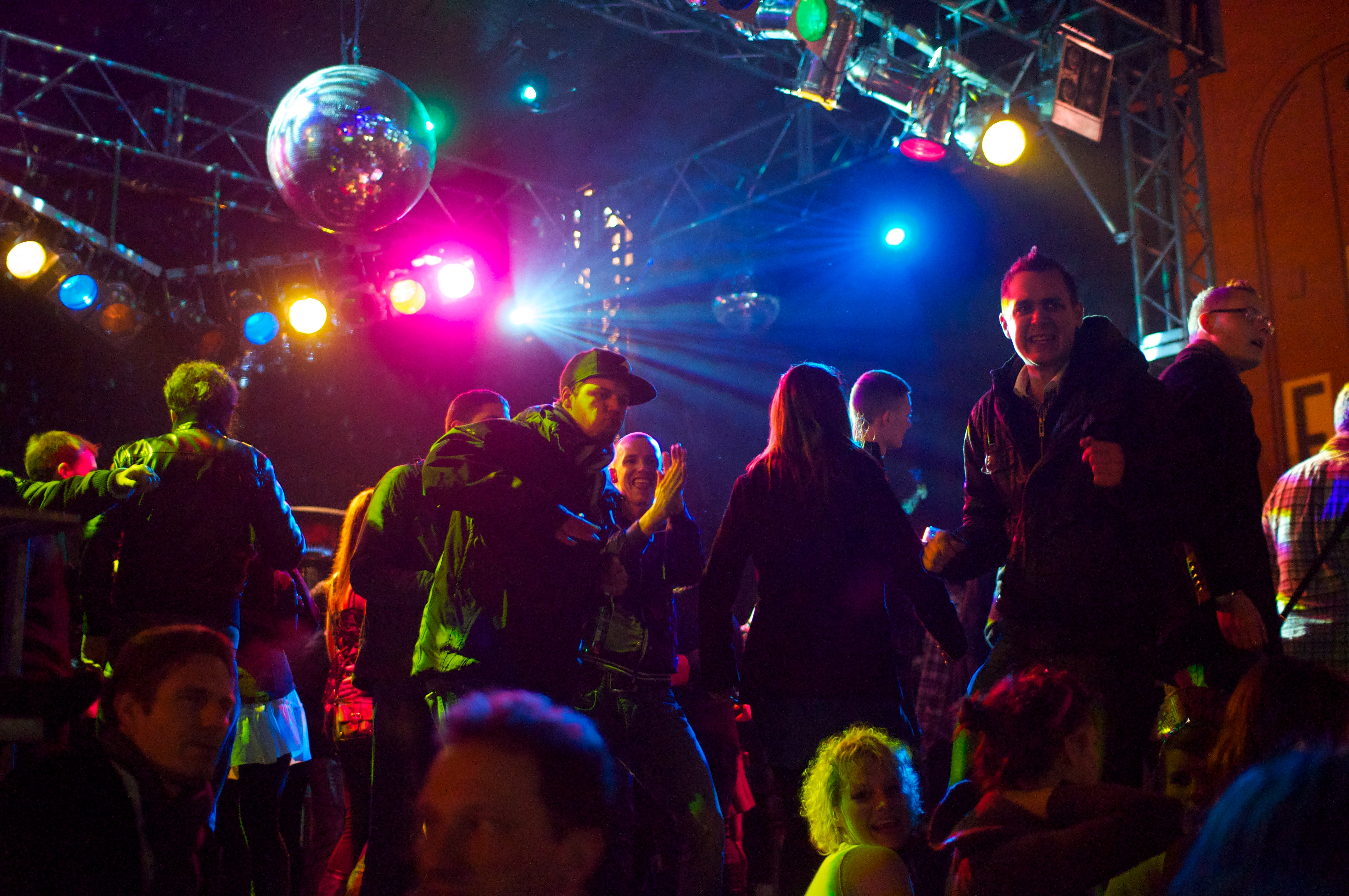 Open air disco dance in Berlin